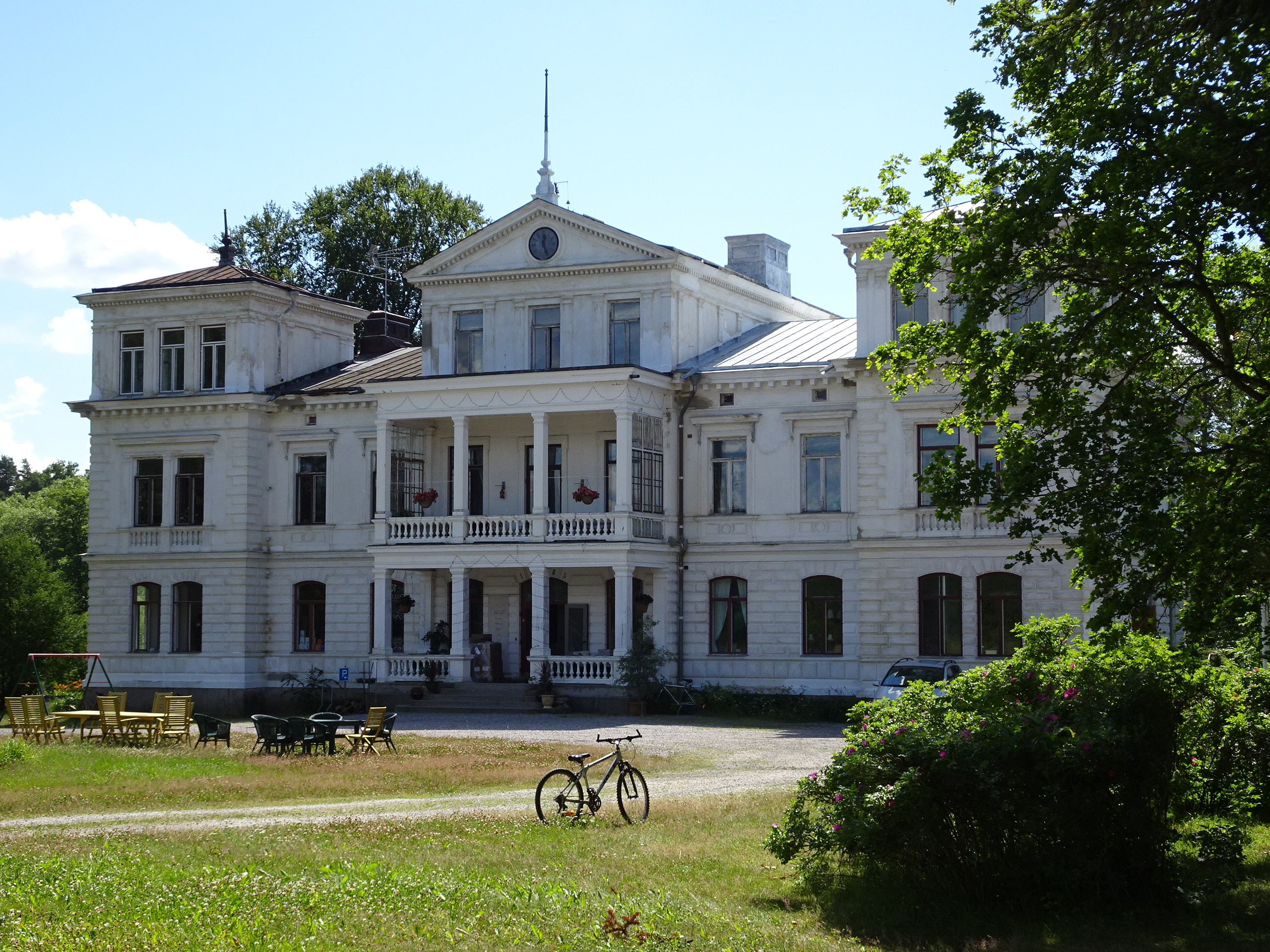 The manor of Jädersbruk, near Arboga in Sweden. The current business (2019) is café, restaurant and sales of organic colours and oils.